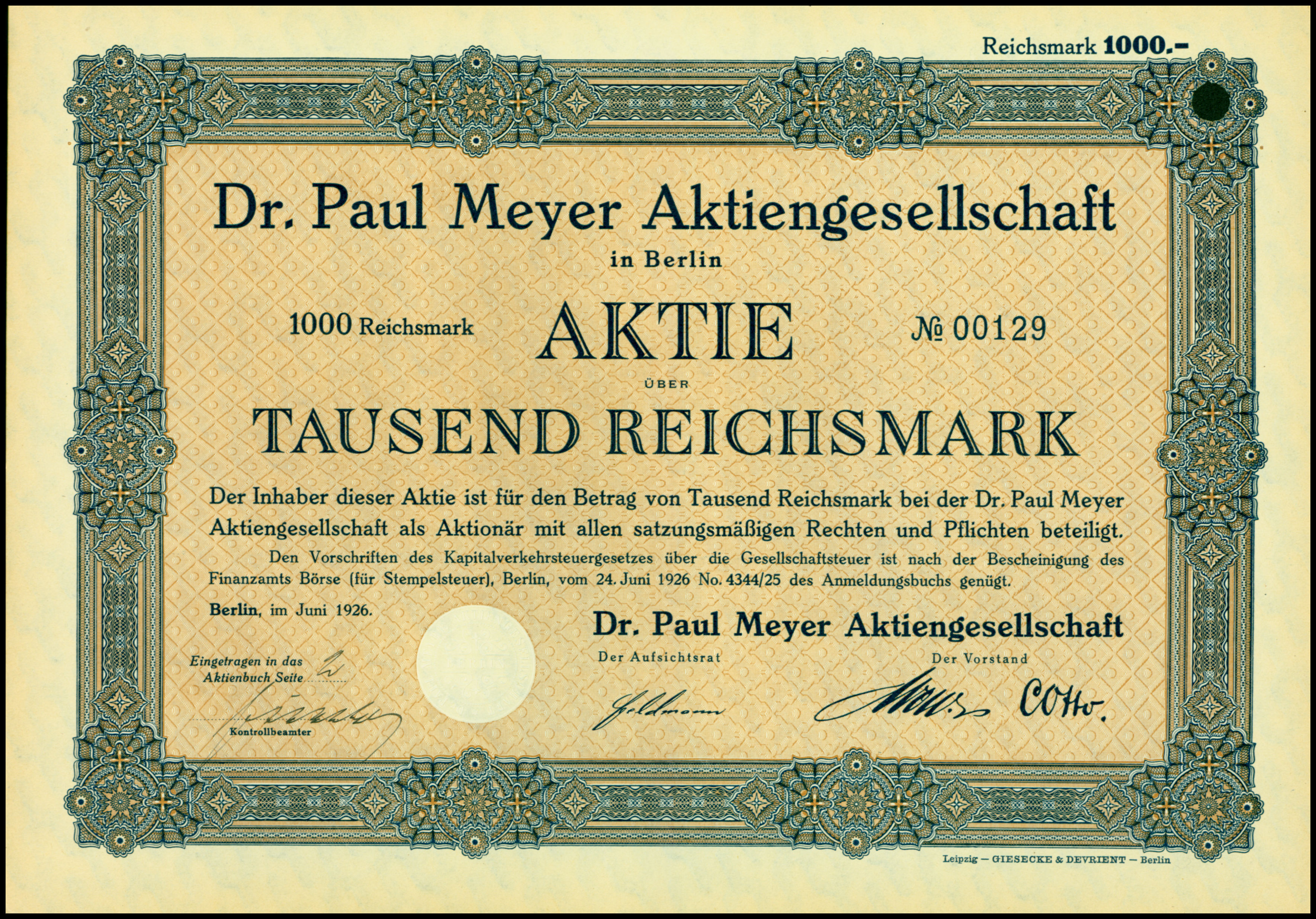 Share of the Dr. Paul Meyer AG, issued June 1926